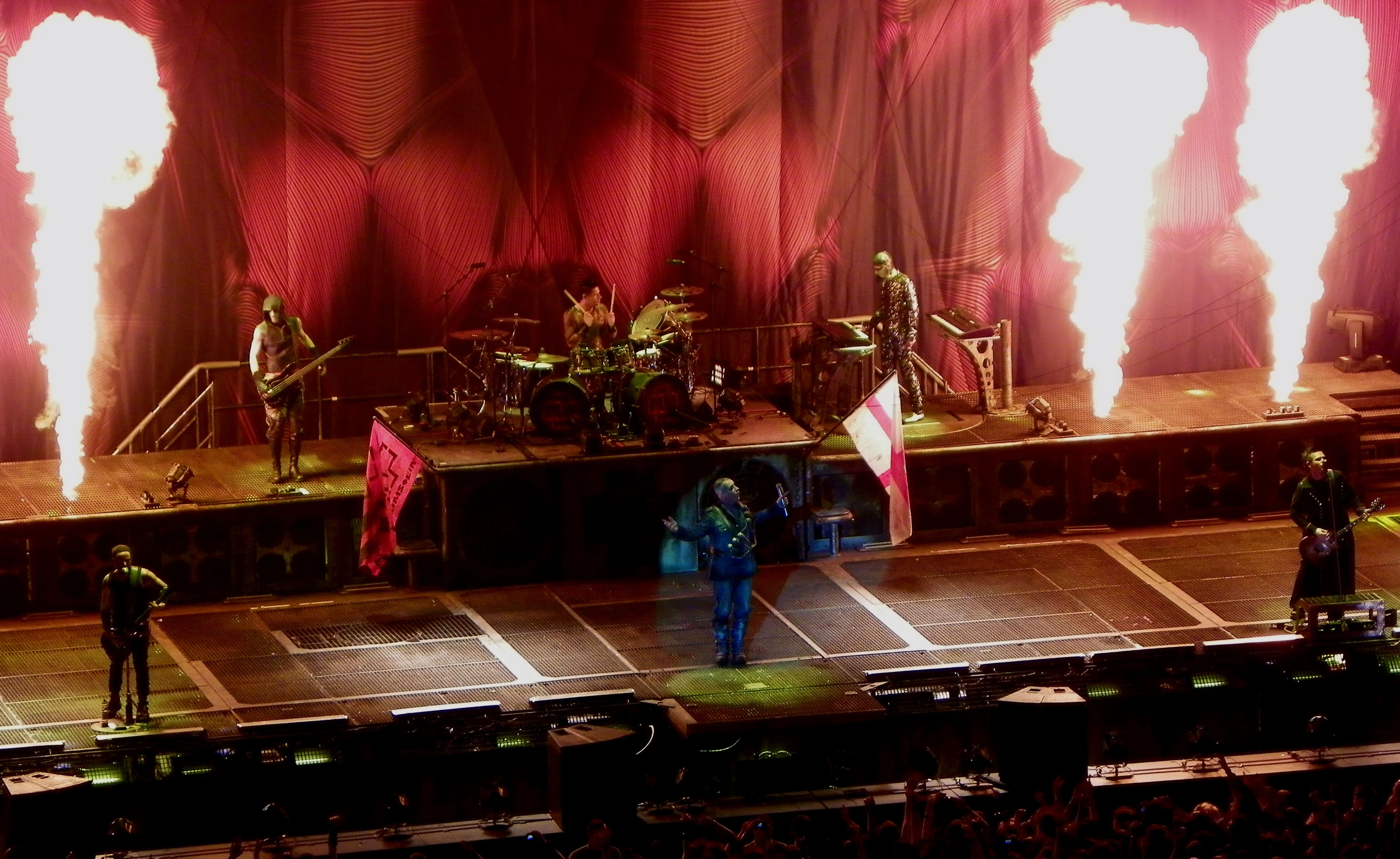 Rammstein at a concert at O2, London, February 24th 2012.